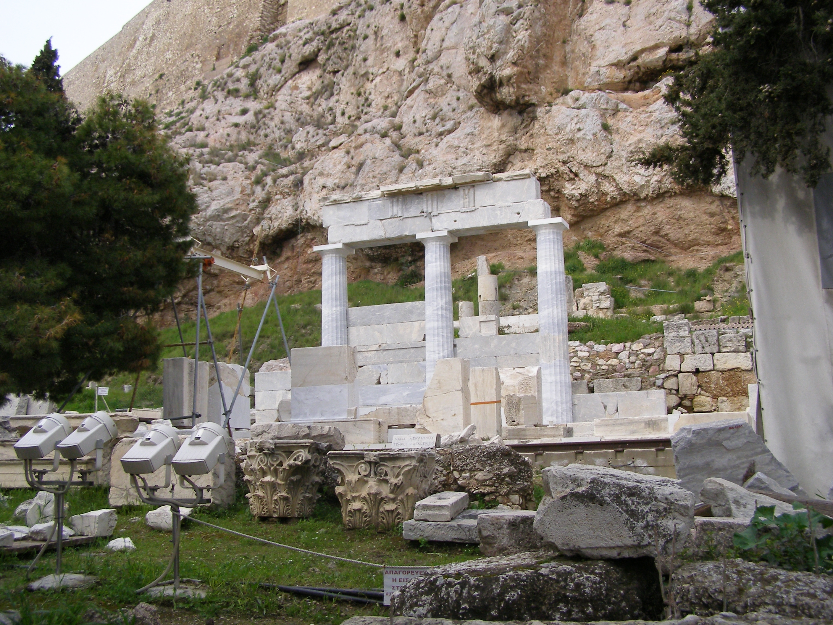 Athens - Sanctuary of Aclepius